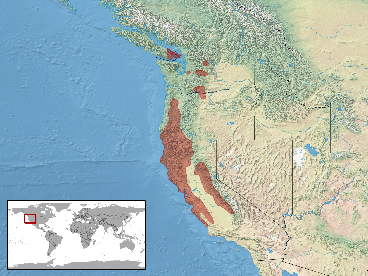 geographic distribution of Contia tenuis (Native: Canada; United States)